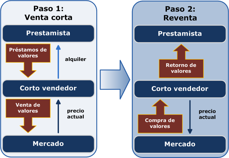 Schematic representation of short selling in the two steps.